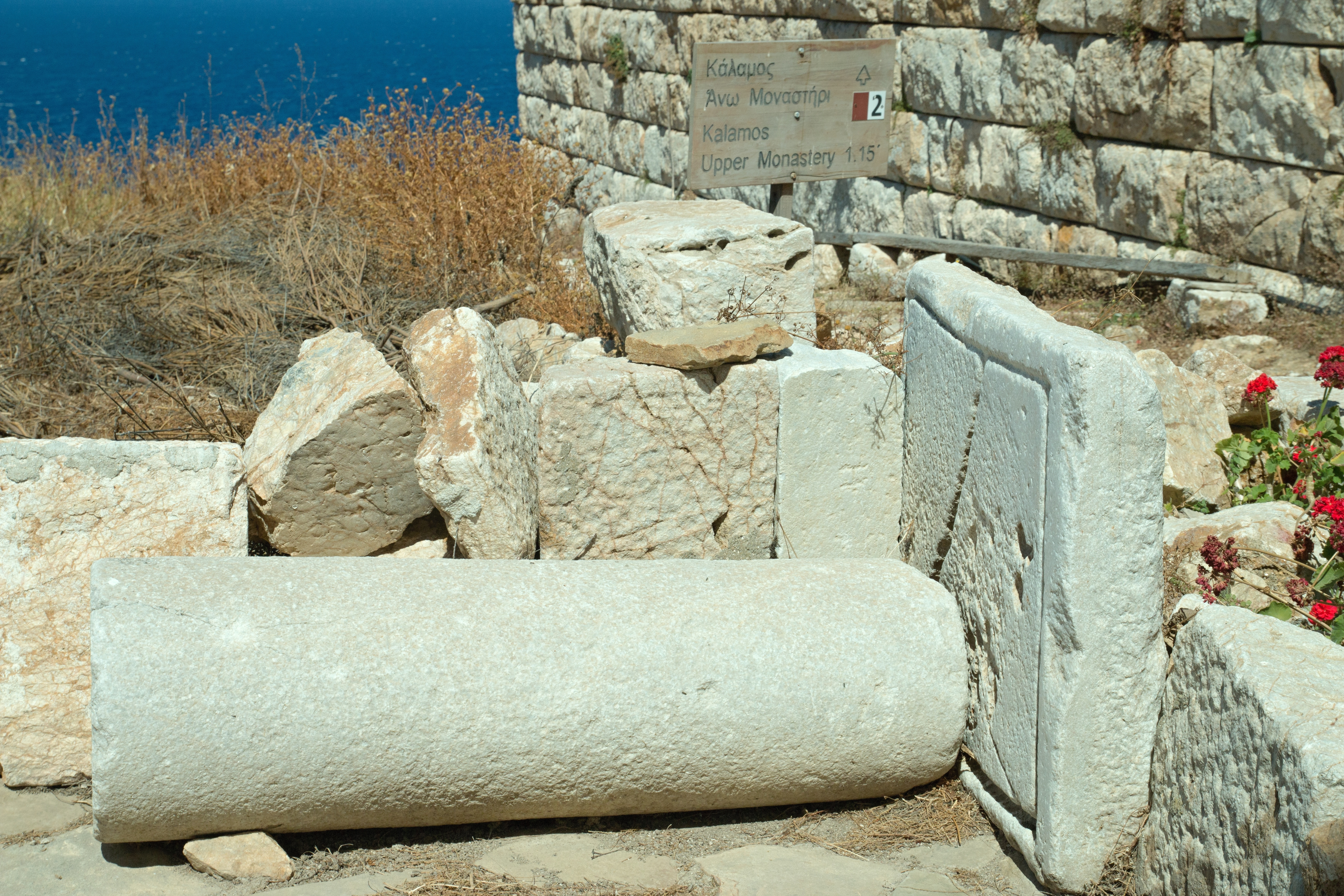 Ancient building articles on the Resting place for pilgrims, in front of the Zodochos Pigi monastery, next to the wall of Aollón's Temple.